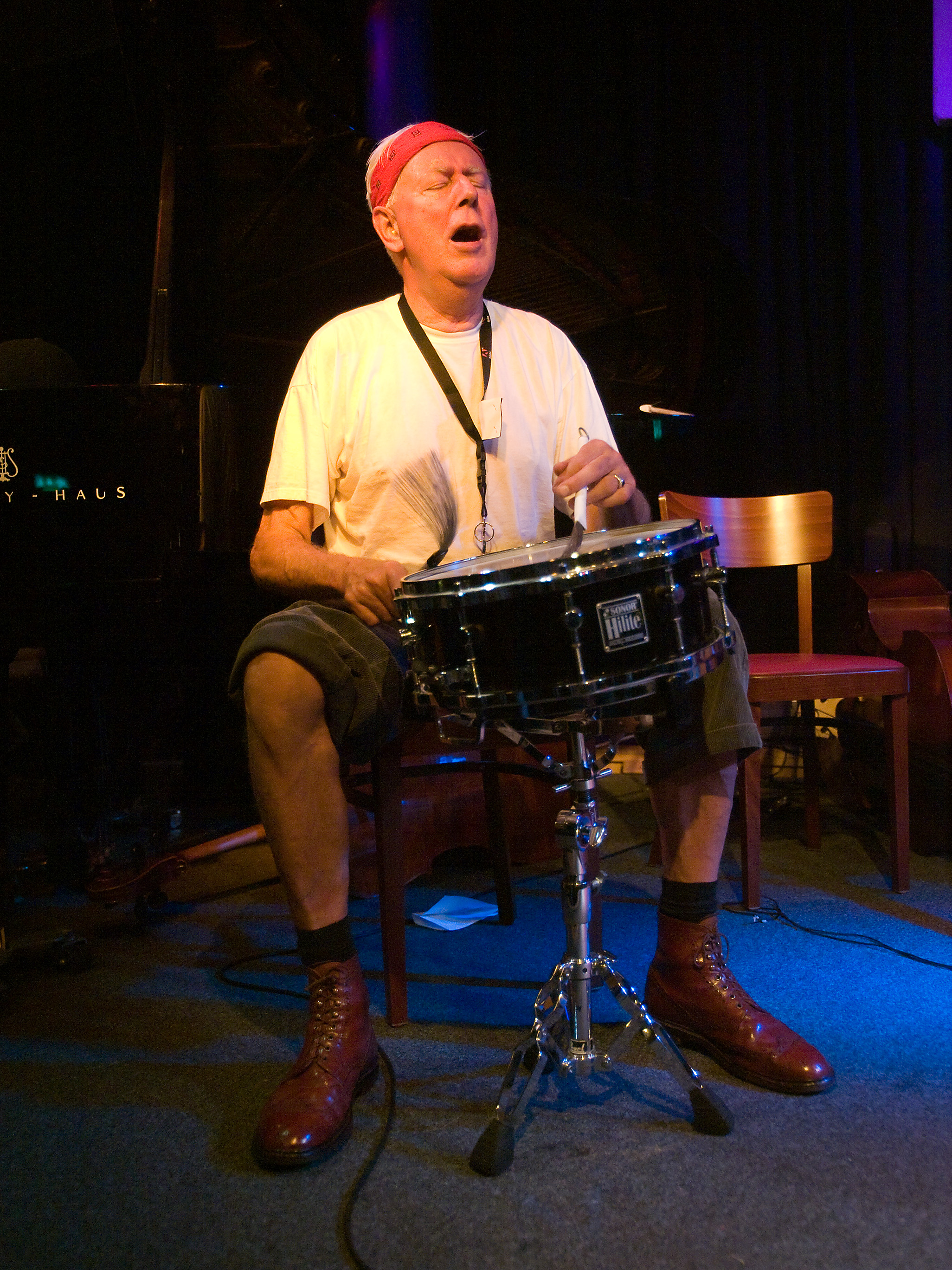 Han Bennink, jazz drummer; Picture taken in Jazz Club Unterfahrt, Munich/Bavaria